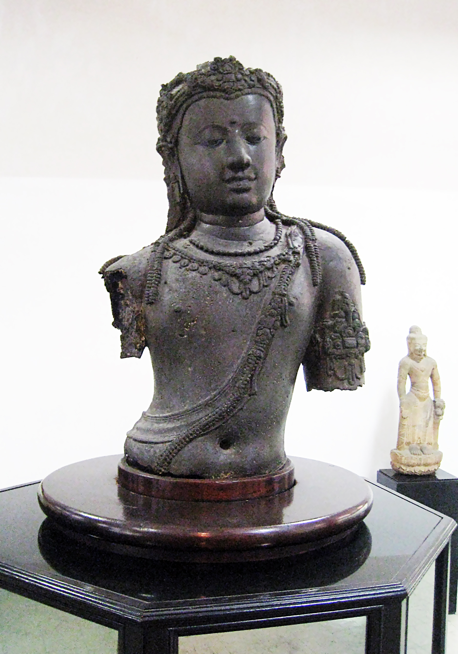 The bronze torso statue of Boddhisattva Padmapani (Avalokiteshvara). 9th century CE Srivijayan art, Chaiya, Surat Thani, Southern Thailand. The statue demonstrate the Central Java art (Sailendra art) influence. In 1905 Prince Damrong Rajanubhab removed the statue from Wat Wiang, Chaiya, Surat Thani to Bangkok National Museum, Thailand.